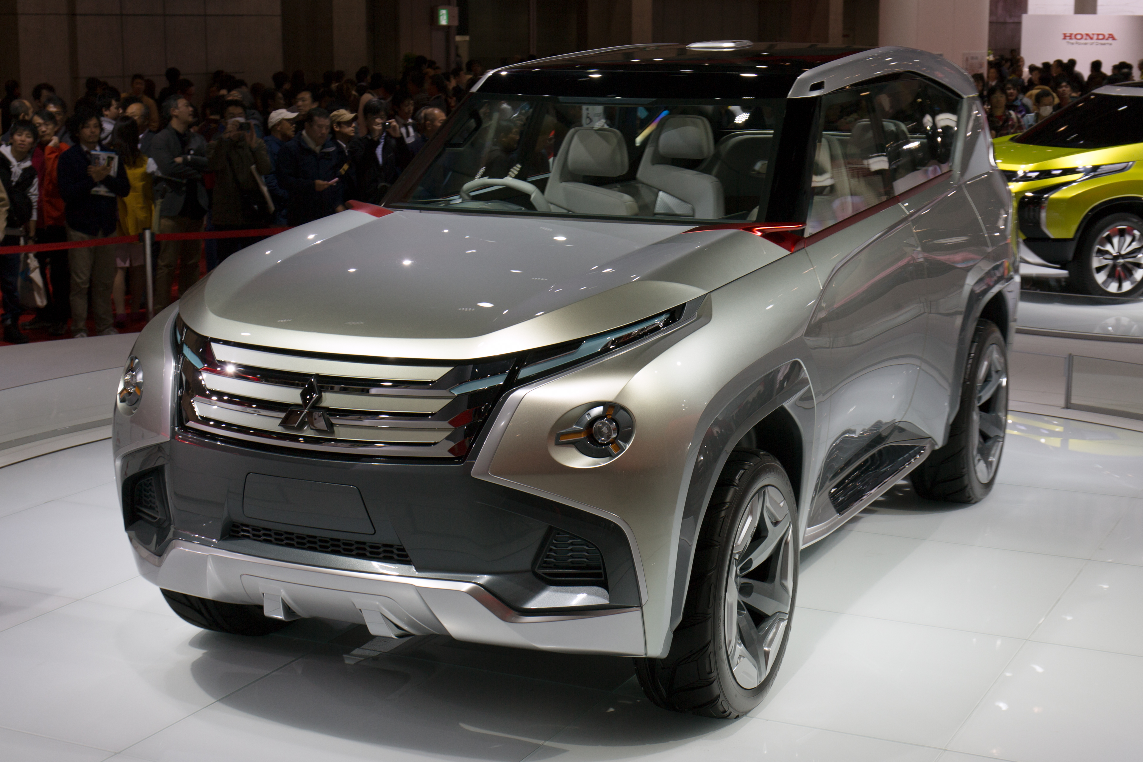 Tokyo Motor Show 2013: Mitsubishi Concept GC-PHEV